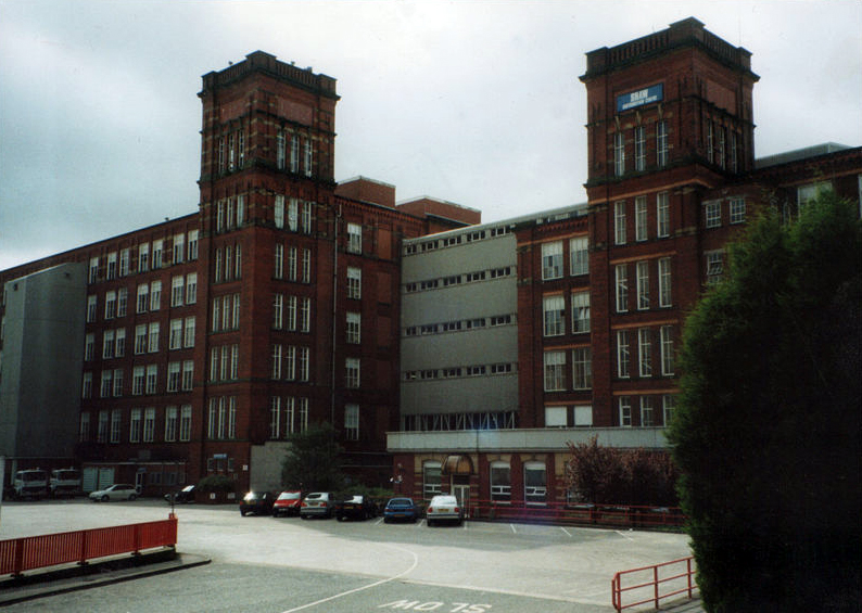 Shop Direct Group's Shaw National Distribution Centre, in Shaw and Crompton, Greater Manchester, England.